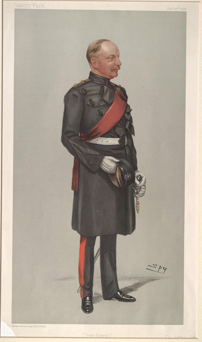 Men of the Day No. 797: Caricature of Colonel Vesey Dawson. Caption read "Irish Guards".